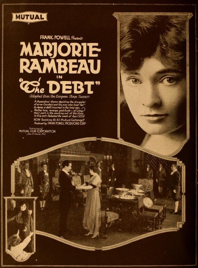 Advertisement in Moving Picture World for the American film The Debt (1917).